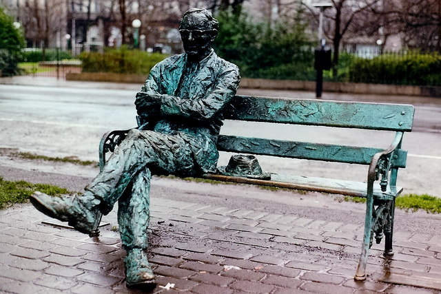 Dublin - Grand Canal - Poet Patrick Kavanagh. This memorial is located along the north side of the Grand Canal and the south side of Wilton Terrace, near the lock just west of the Baggot Street bridge. The sculptor is John Coll